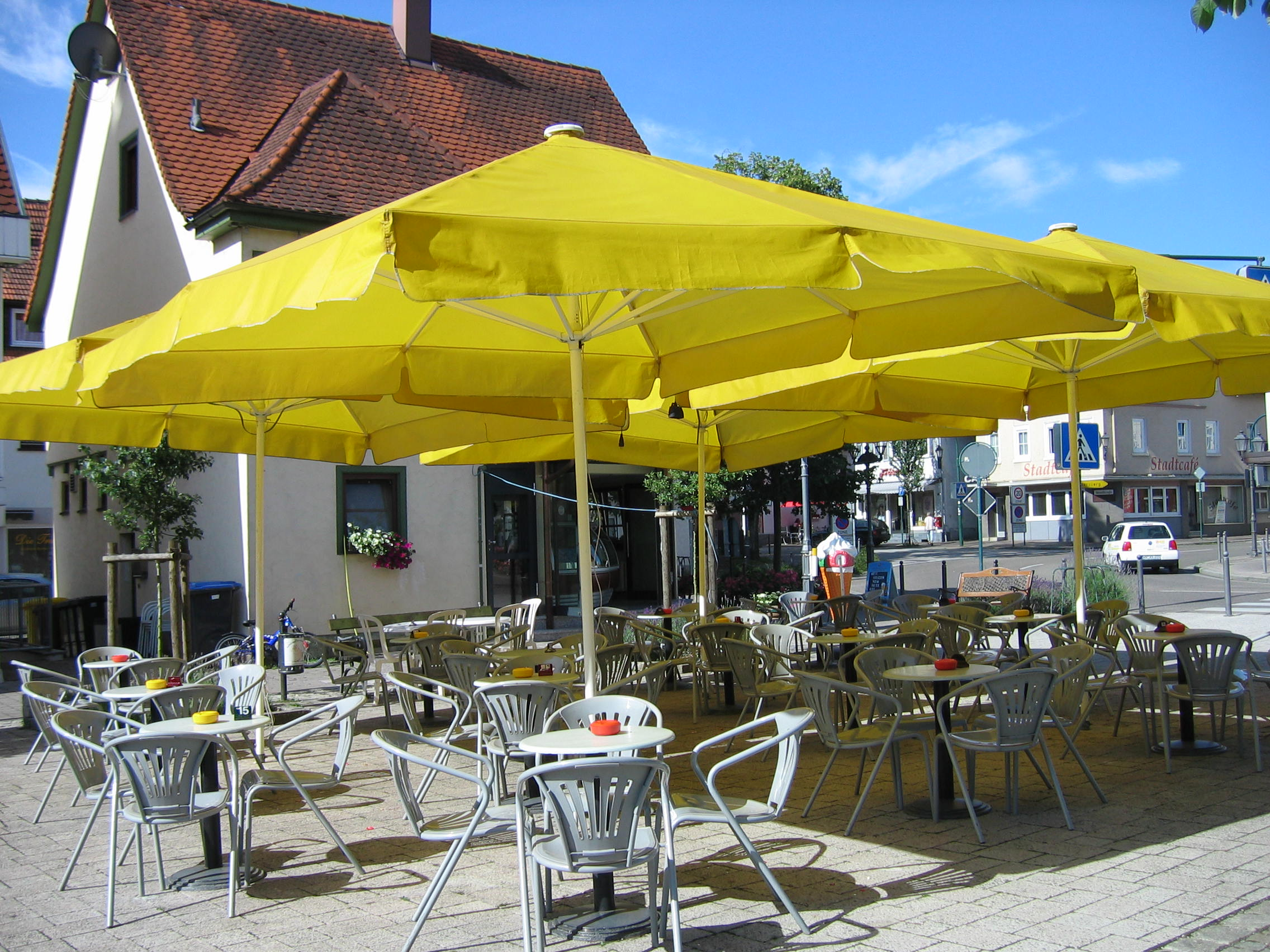 The terrace of a small German restaurant in Welzheim, Baden-Württemberg.